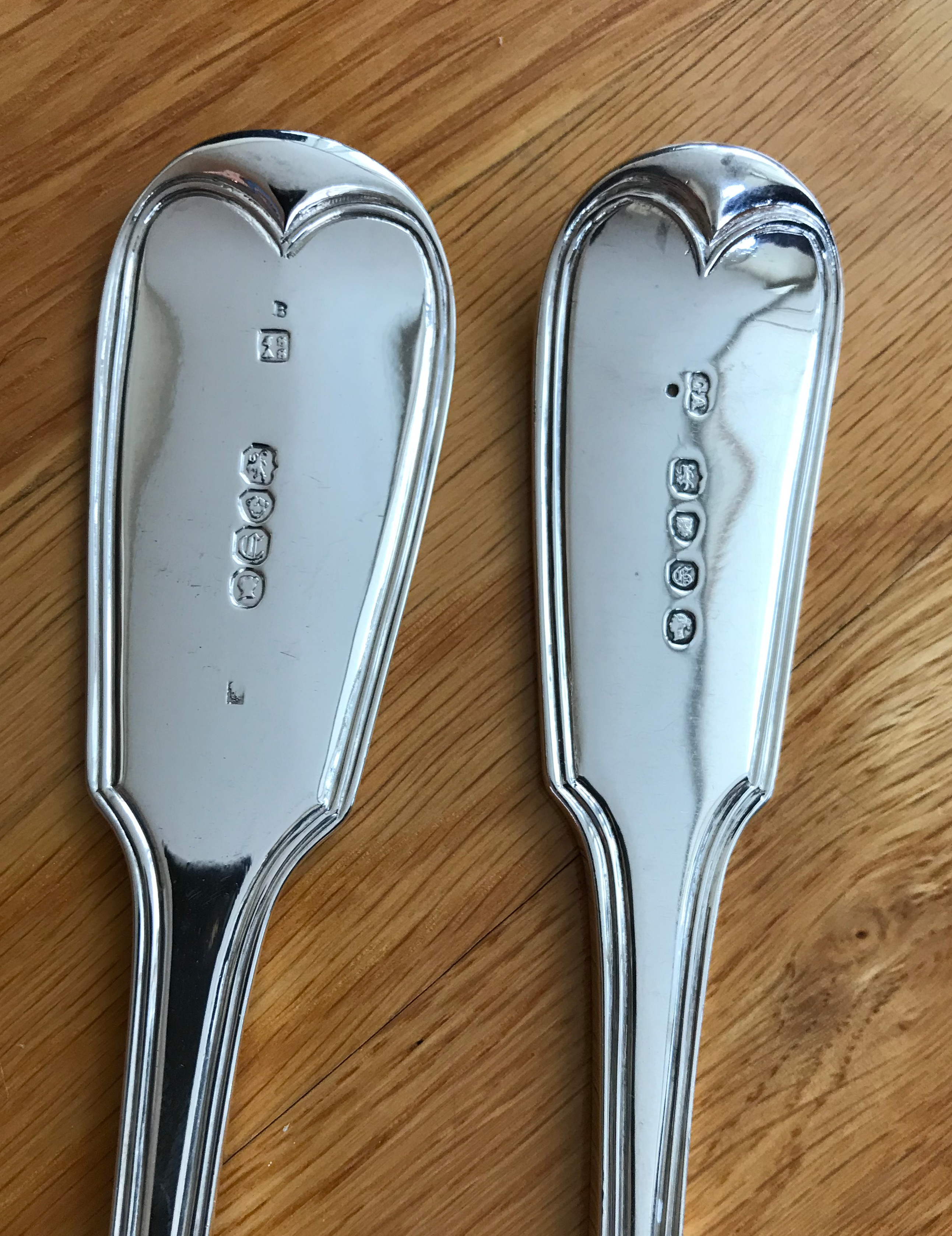 Shows the hallmarks for two pieces of English silver (from the workshops of George Adams (1842) and Joseph & Albert Savory (1838)) each with a tally mark added (the letter B on one and a small dot on the other). These small marks were stamped by the journeyman who made the piece so that his work could be tallied for correct payment.